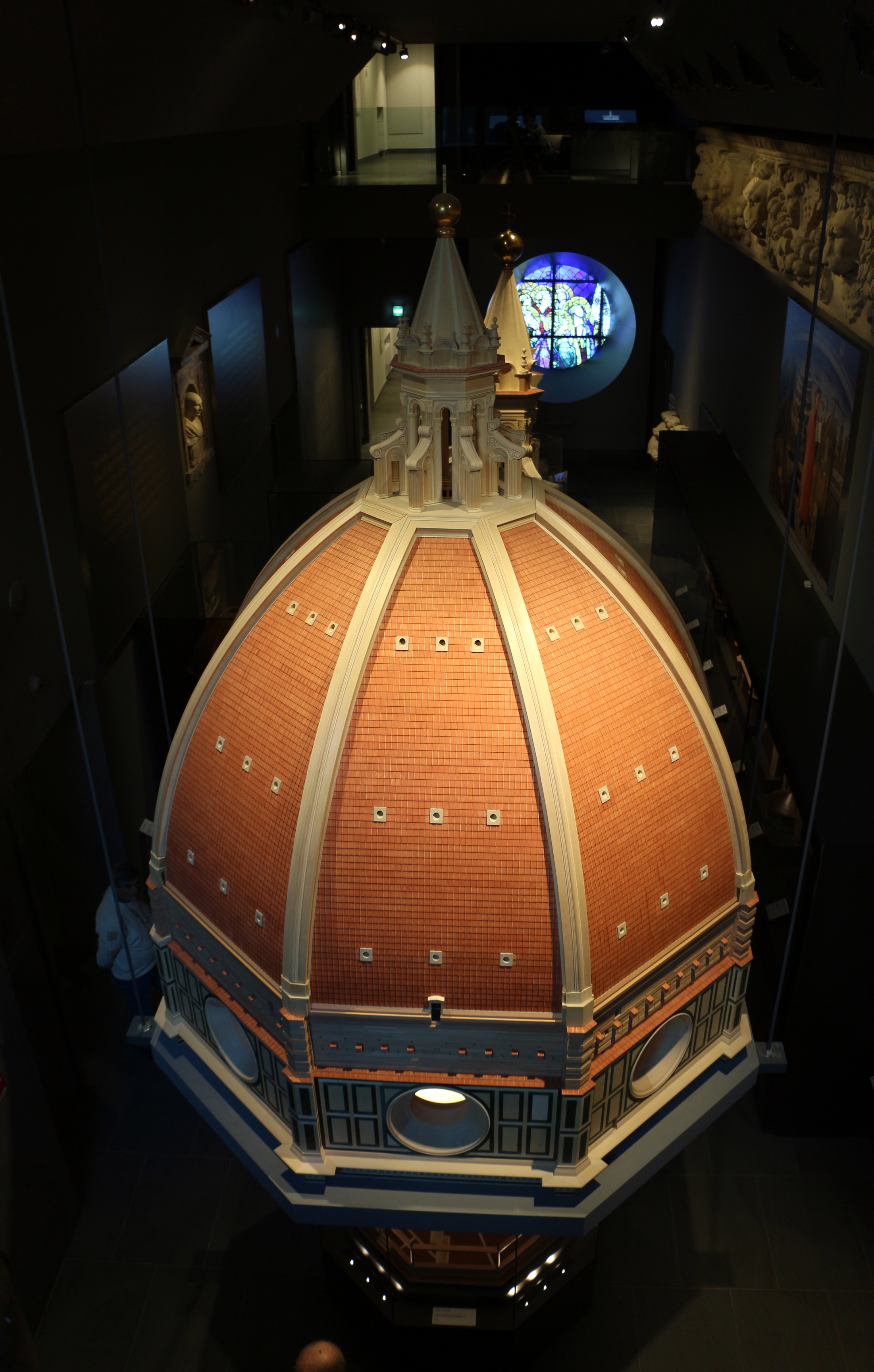 Museo dell'Opera del Duomo (Florence)